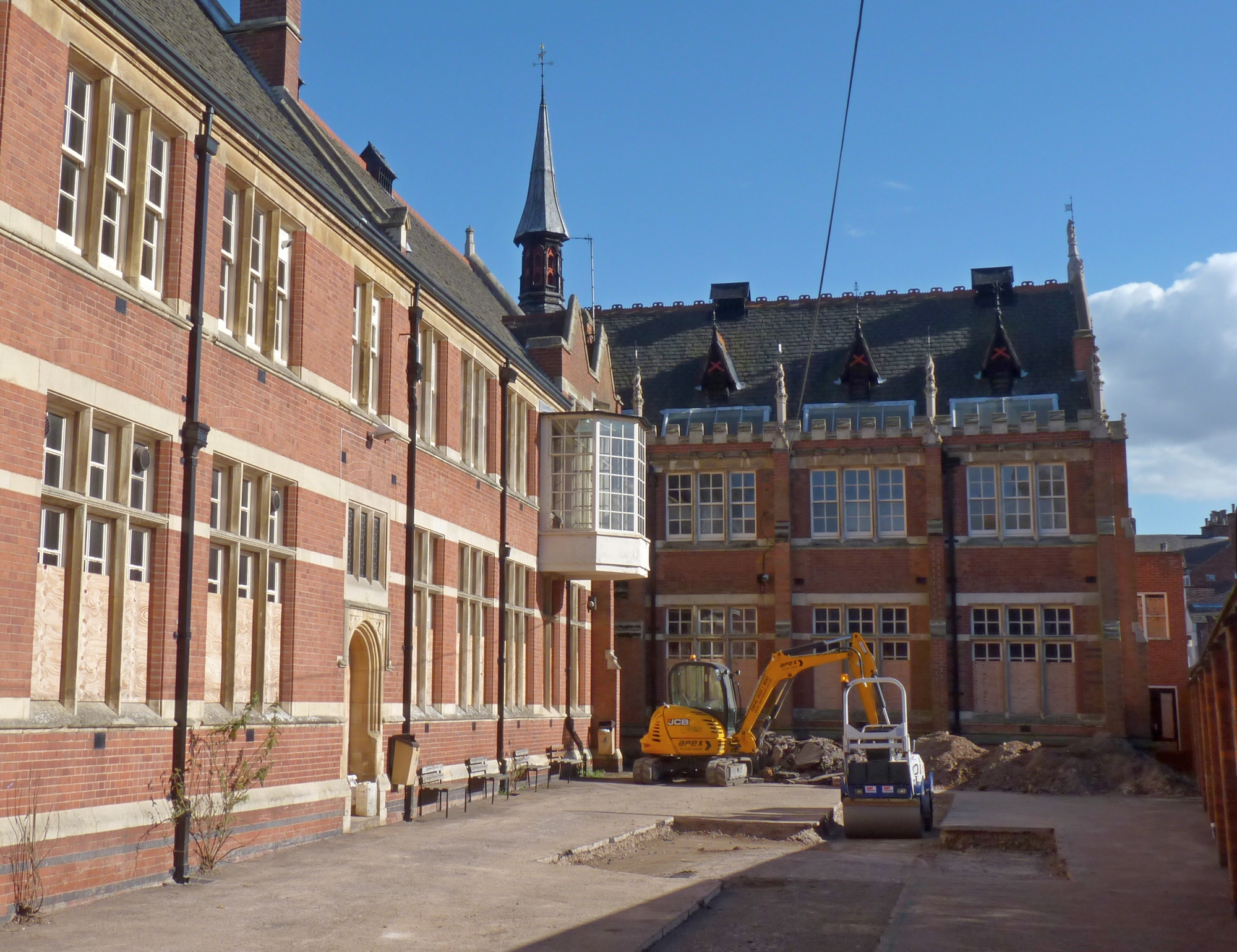 Built in 1864 as Alderman Newton's Boys School, it became the Girls school in 1920, and later the Prep school. The furthest section is the original school, with extensions along the left side. In 2012 the former playground was the location for Trench 3 of the dig to find the Greyfriars church (crossing where the trench widens) in the hope of finding Richard III's grave.